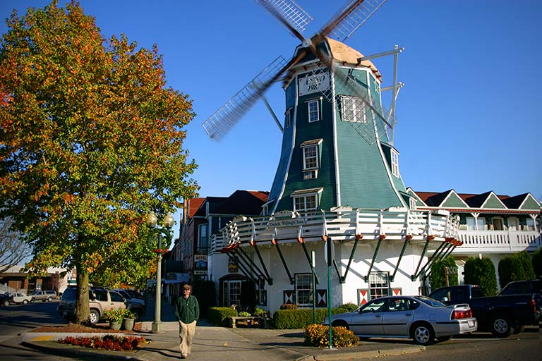 The windmill facade of Dutch Village Inn (later Mill Inn) on the corner of Front and 9th Streets, Lynden, Washington, U.S.